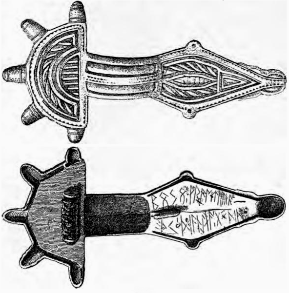 A drawing of the Frei-Laubersheim fibula from 1900. Landesmuseum Mainz (Inv.-Nr. N 1760)